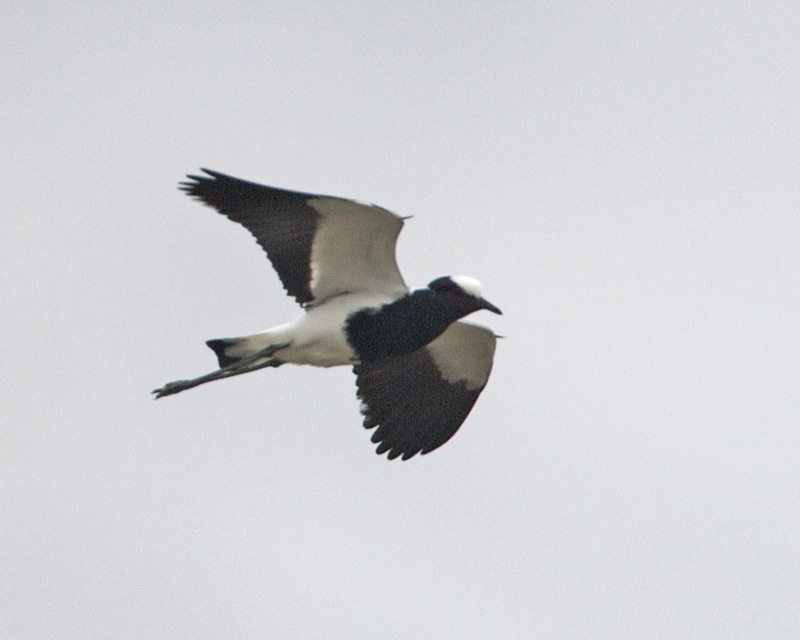 Blacksmith Plover in Kwa Madwala Game Park, Mpumalanga, South Africa, on 9th. October 2009. Wing spurs are present in both sexes but grow to longer lengths in males. Range map: [1]